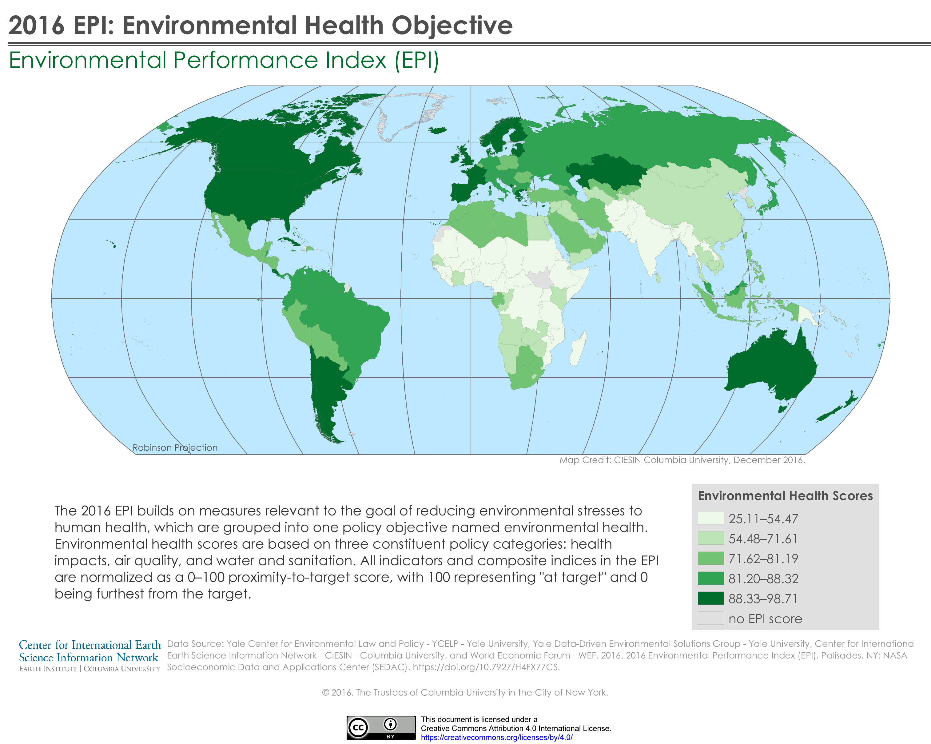 The 2016 EPI builds on measures relevant to the goal of reducing environmental stresses to human health, which are grouped into one policy objective named environmental health. Environmental health scores are based on three constituent policy categories: health impacts, air quality, and water and sanitation. All indicators and composite indices in the EPI are normalized as a 0–100 proximity-to-target score, with 100 representing "at target" and 0 being furthest from the target. The Environmental Performance Index, 2016 Release (1950-2016) data set is part of the Environmental Performance Index (EPI) collection. See more information at .